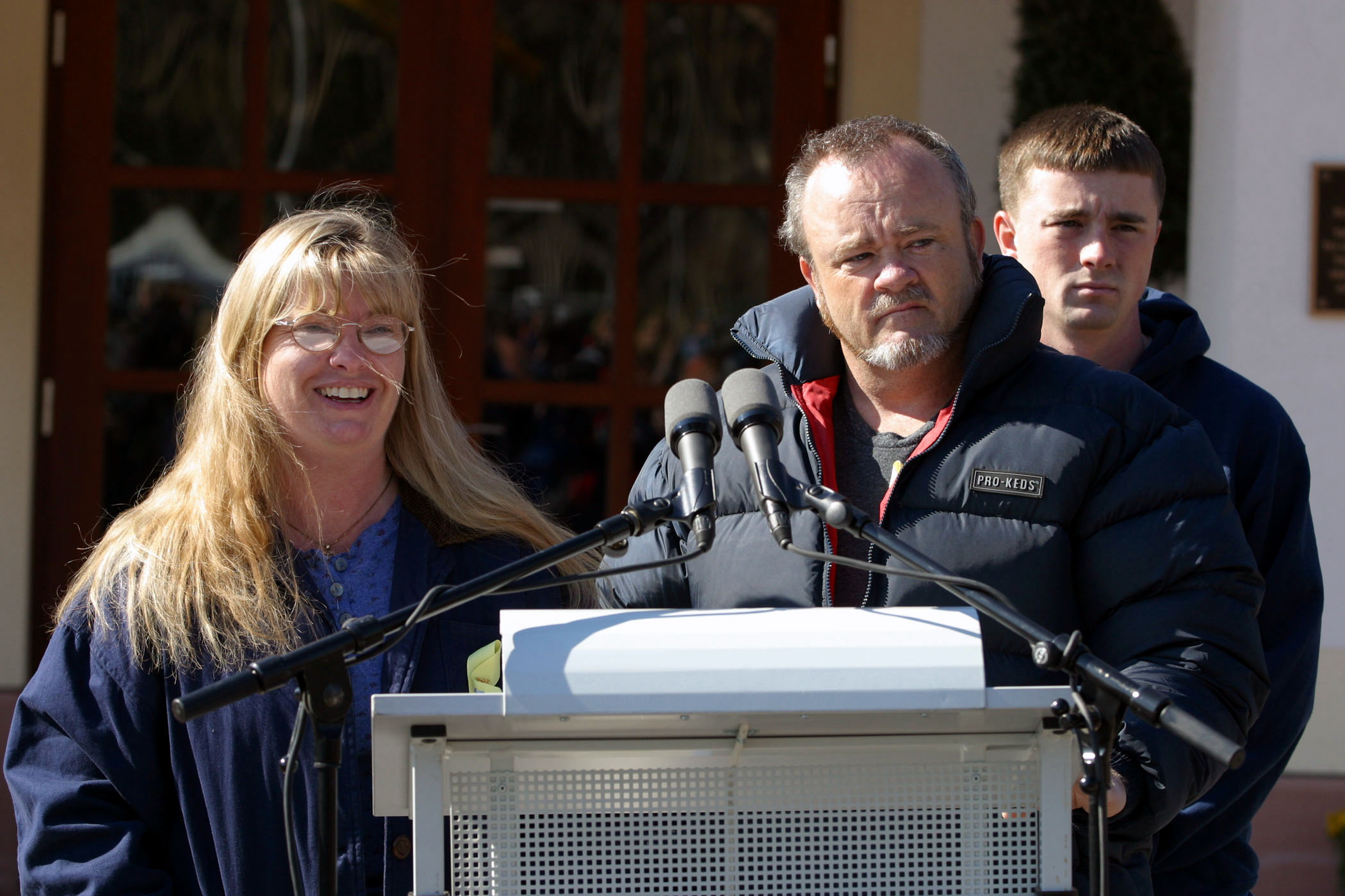 Landstuhl, Germany -- Dee Lynch, mother of Pfc. Jessica Lynch, answers questions from the media in front of ‘The Fisher House’ at the Landstuhl Regional Medical Center about the health and care of her daughter. Pfc. Jessica Lynch was held as a POW in Iraq and has been receiving medical care at LRMC since arriving from Kuwait and Operation Iraqi Freedom. Mr. Lynch and Pfc Greg Lynch, Jr. (father and brother) listen in the background. Operation Iraqi Freedom is the multi-national coalition effort to liberate the Iraqi people, eliminate Iraq's weapons of mass destruction, and end the regime of Saddam Hussein. U.S. DoD photo. (RELEASED)